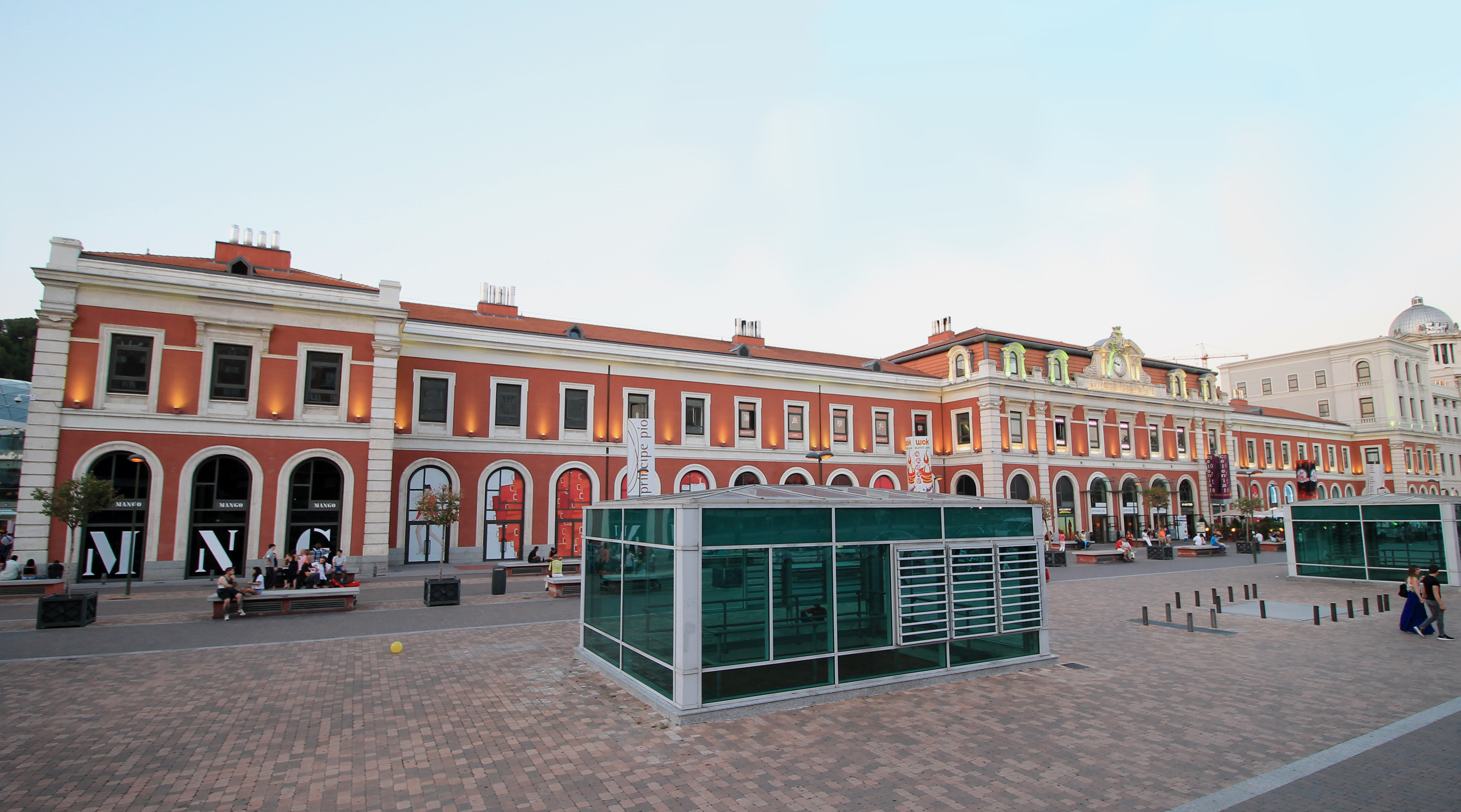 South-west façade of Príncipe Pío railway station in Madrid (Spain).